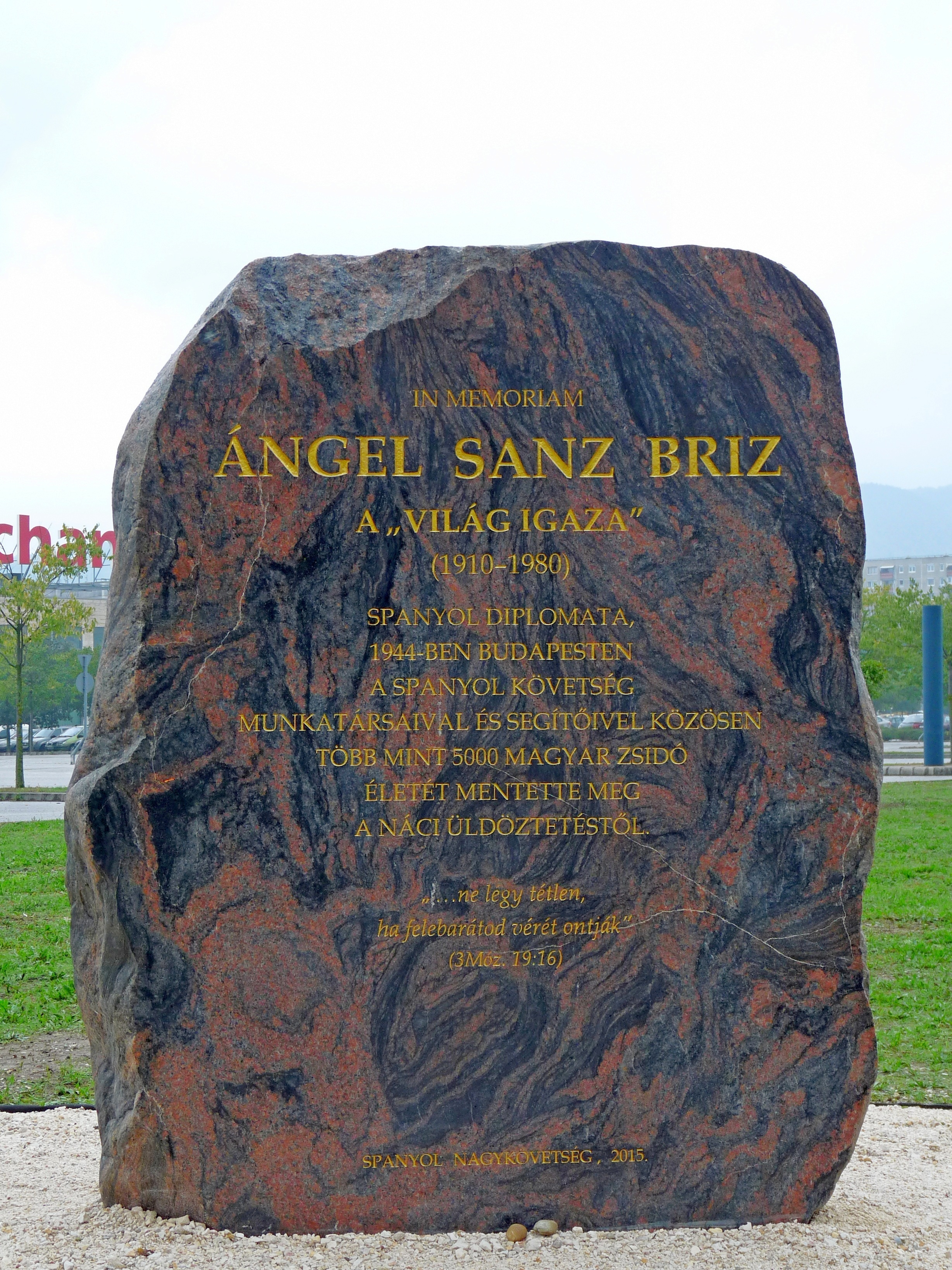 Memorial to Mr. Ángel Sanz Briz (1910-1980), Spanish diplomat, an "Righteous Among the Nations" who worked in Budapest in 1944 and managed to save more than five thousand Hungarian Jews from the Holocaust. The granite memorial sculpted by Mr. Krisztián Máthé and erected by the Spanish Embassy in Budapest near the street wearing the rescuer’s name has been unveiled October 16, 2015. Quote: "Do not stand idly by the blood of your neighbor" (Lev. 19:16) (Budapest, District III, cross of streets Angel Sanz Briz and Záhony)